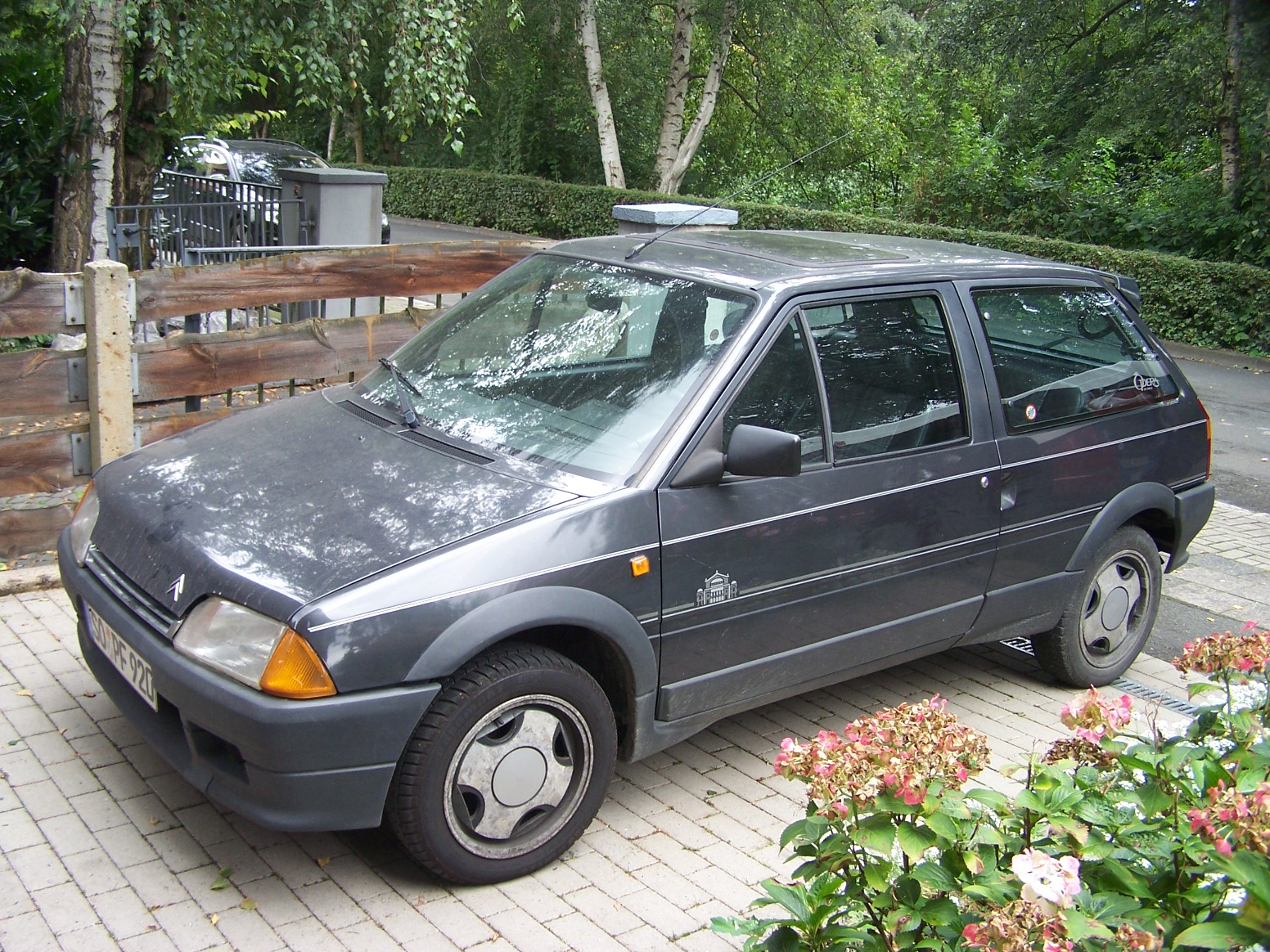 1990 Citroen AX GT "Opera de Paris", limited Edition with special leather interior, according to Citroen only about 400 were built.